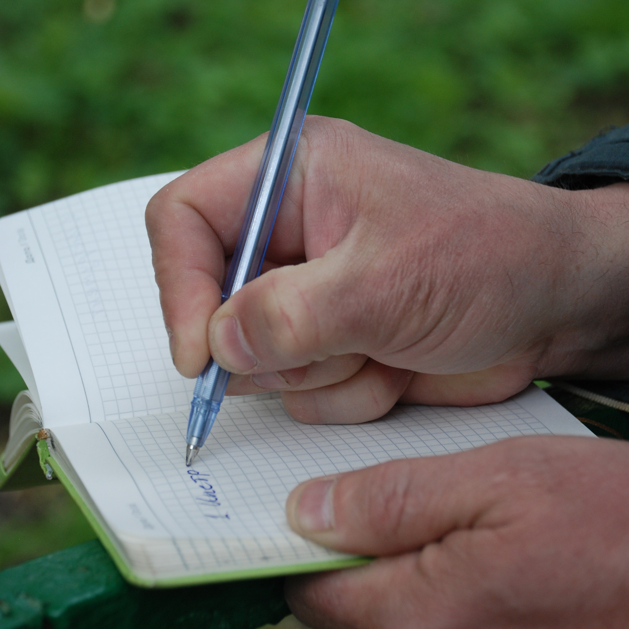 Тонкий предмет (ручка), зажатая в трех пальцах, позволяет выводить тонкие рисунки